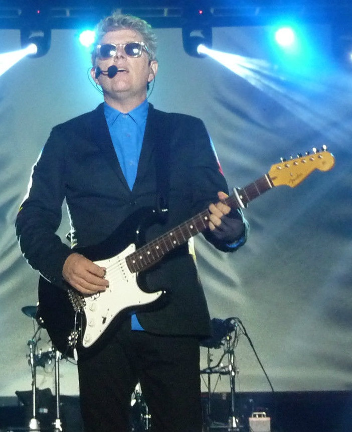 Tom Bailey